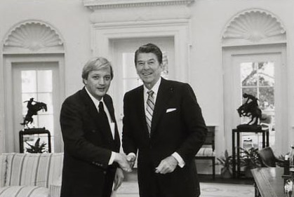 President Ronald Reagan and James Broyhill (2-6) President Ronald Reagan and Joel Deckard (7-11) President Ronald Reagan and Christopher Smith (12-16) President Ronald Reagan and David Michael Staton (17-20)